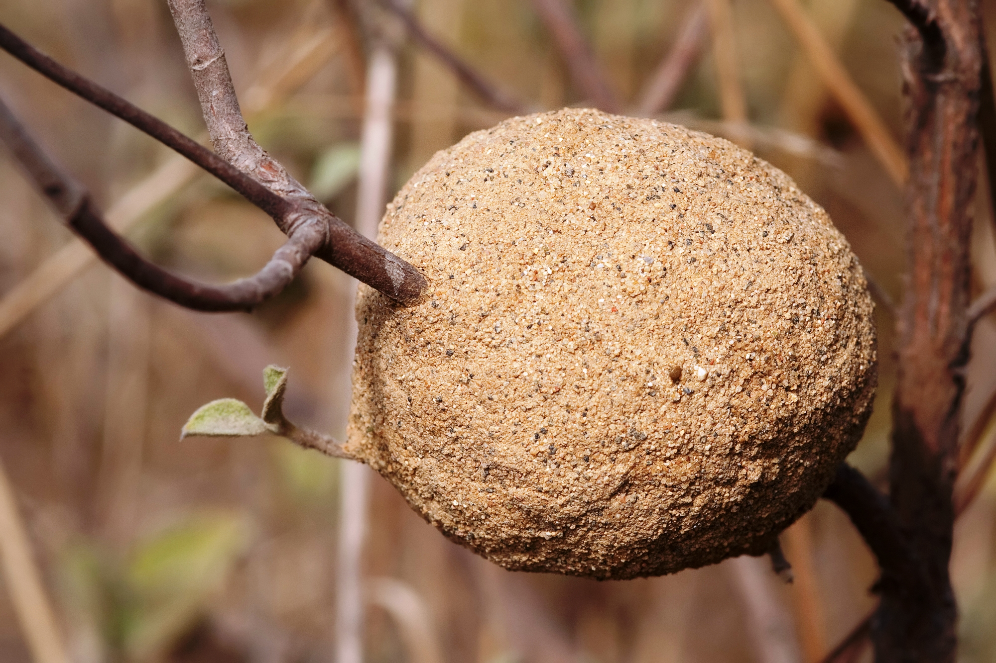 Megachile sicula nest